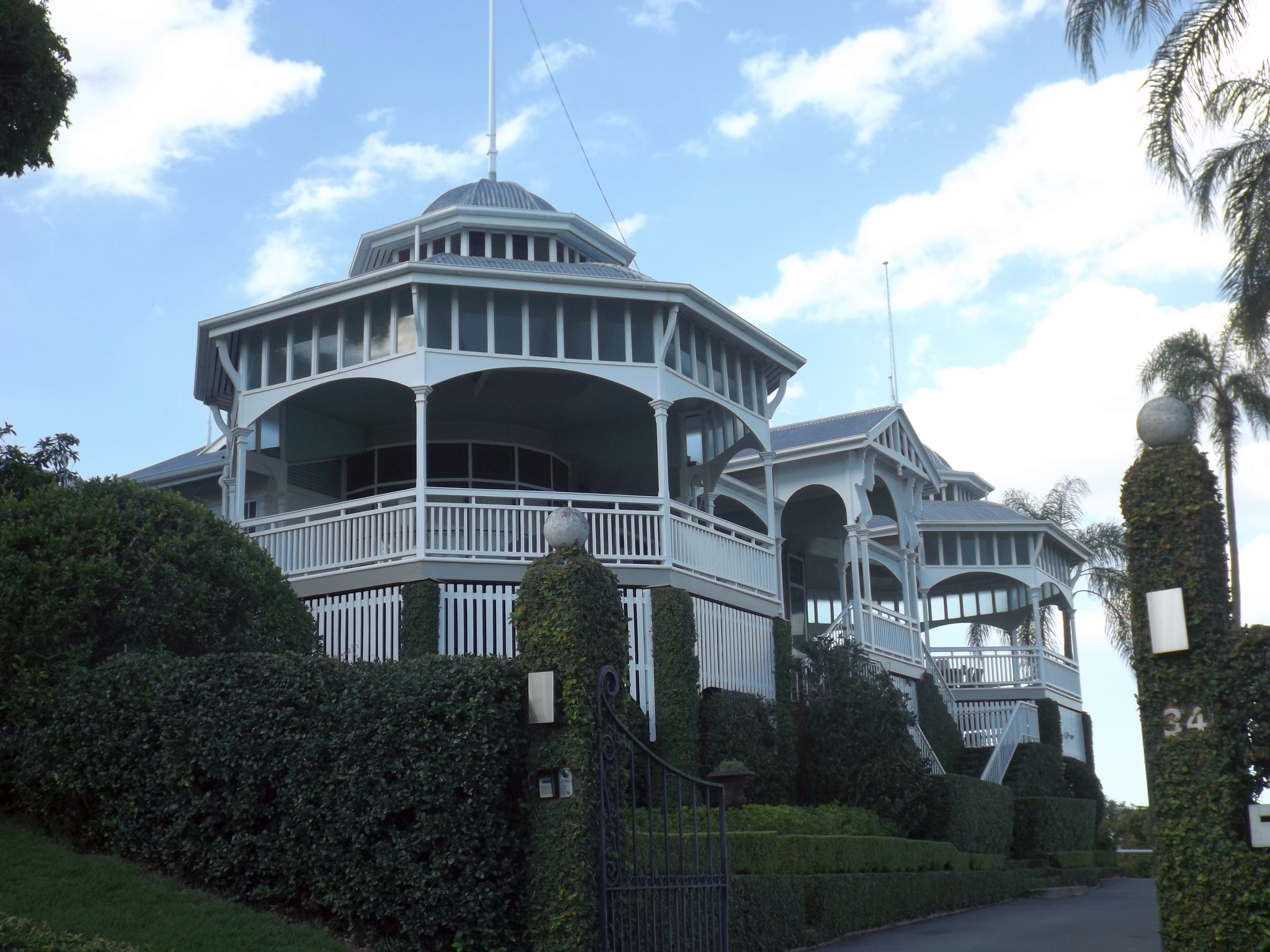 Photo of Cremorne residence at Hamilton, Brisbane, Queensland, Australia.